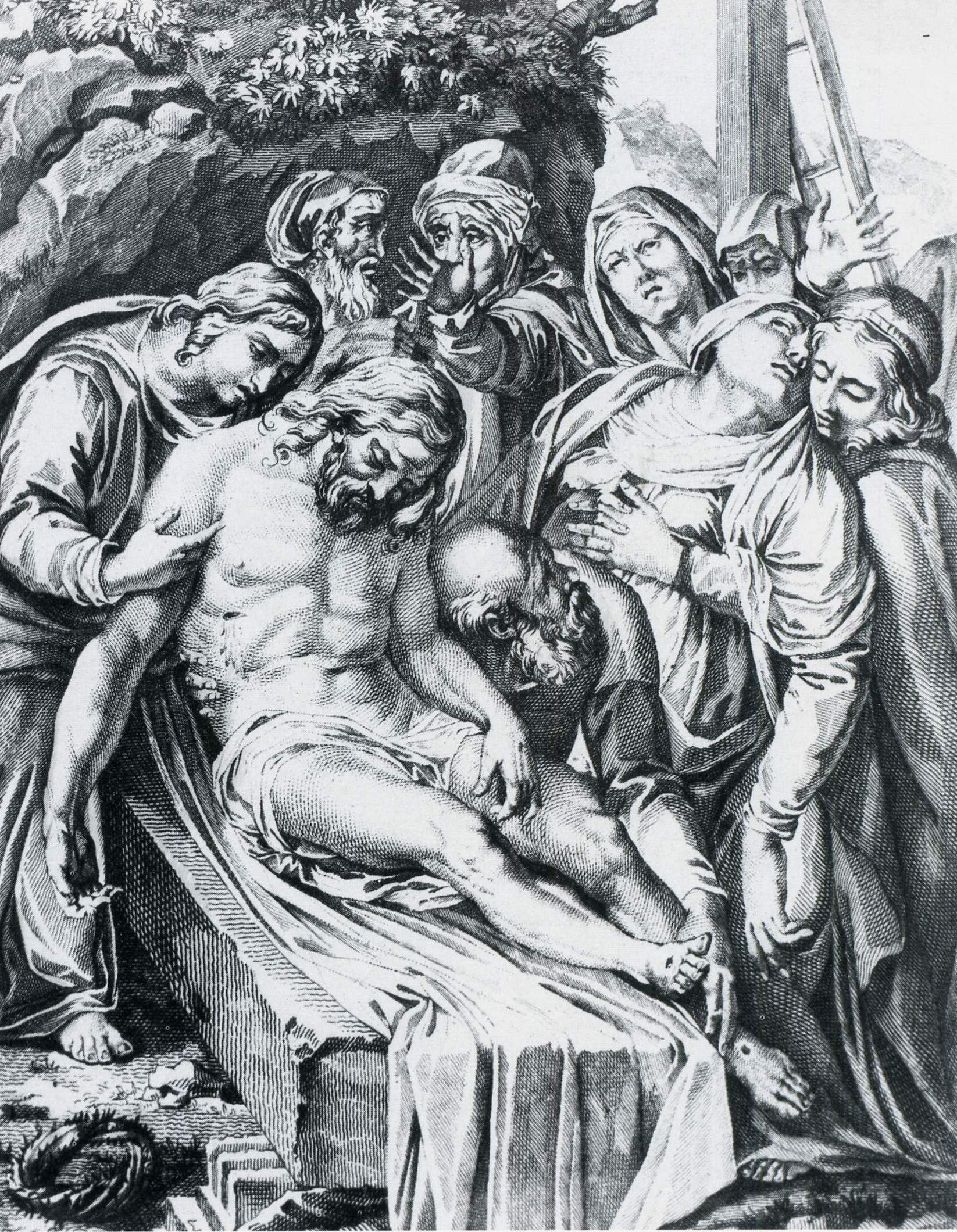 Position in the coffin